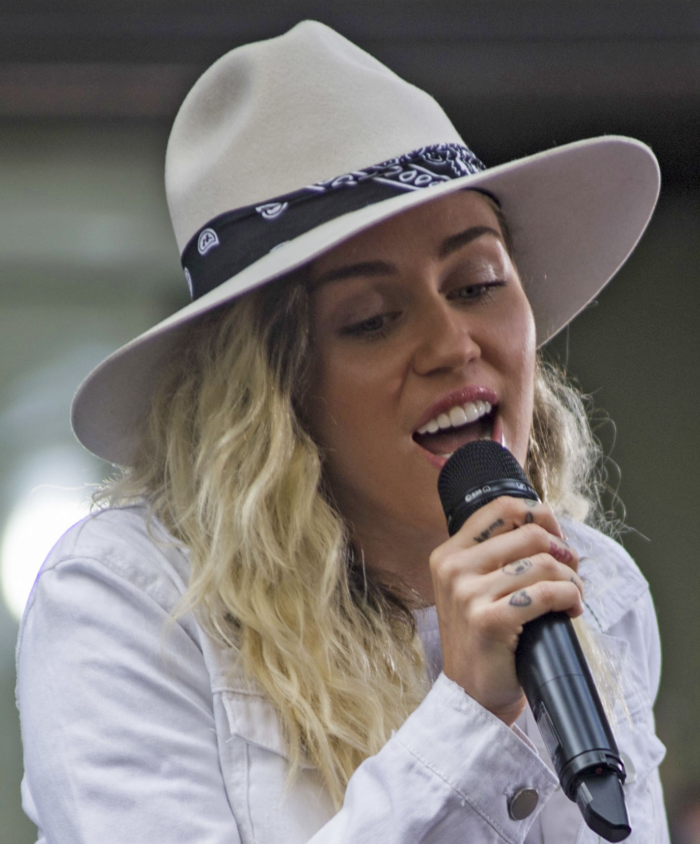 170526-N-EO381-052NEW YORK (May 26, 2017) – Miley Cyrus performs on the Today Show in downtown Manhattan for Fleet Week New York (FWNY). FWNY, now in is 29th year, is the city’s time honored celebration of the sea services. It is an unparalleled opportunity for the citizens of New York and the surrounding tri-state area to meet Sailors, Marines and Coast Guardsmen, as well as witness firsthand the latest capabilities of today’s maritime services. (U.S. Navy photo by Mass Communication Specialist 3rd Class Casey J. Hopkins/Released)